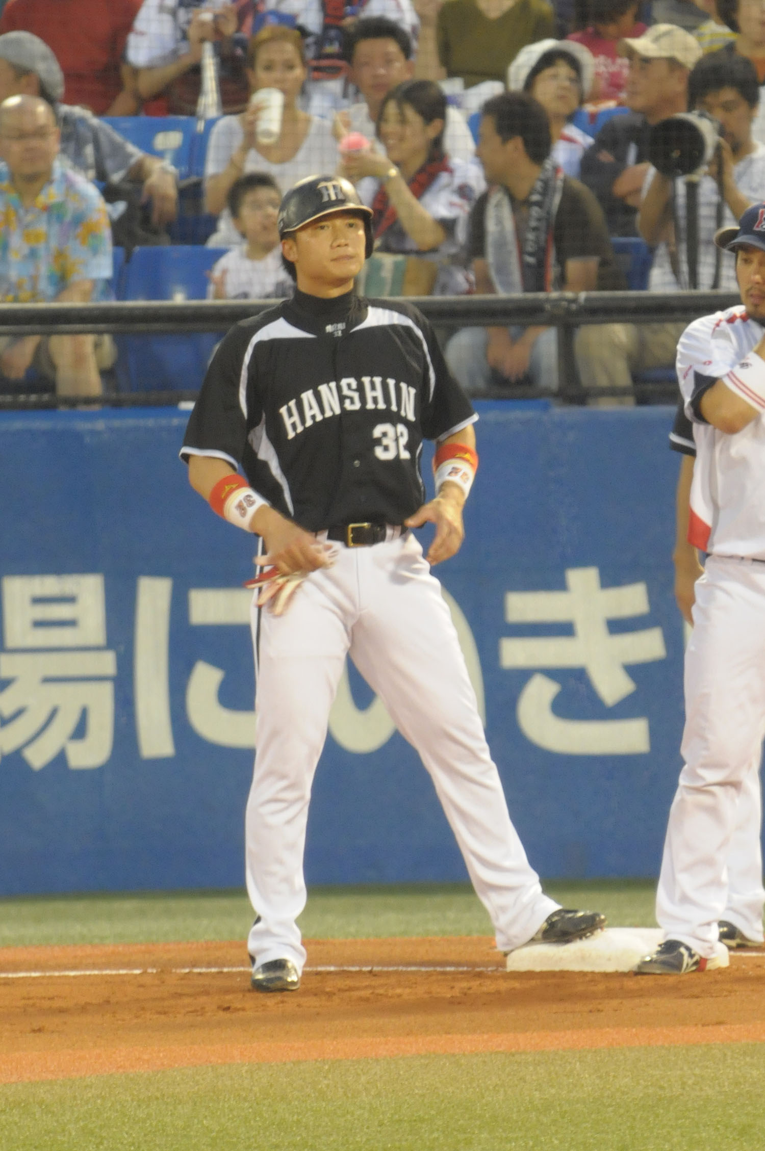 Ryota Arai, infielder of the Hanshin Tigers, at Meiji Jingu Stadium.